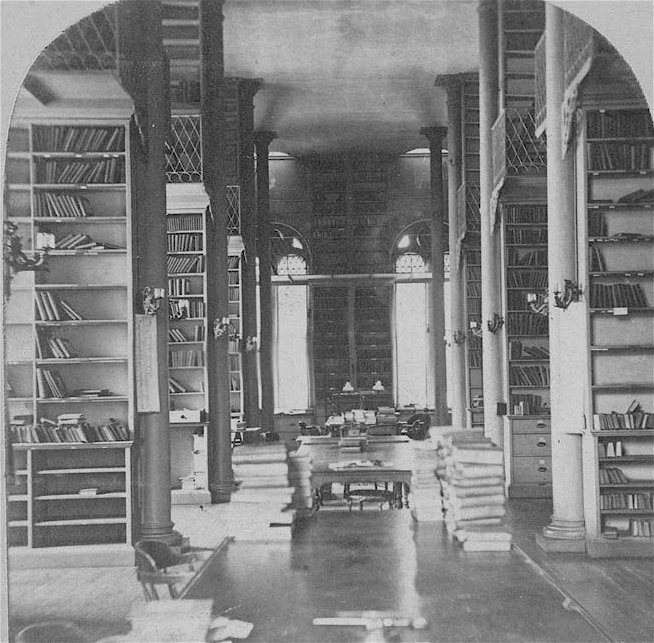 Accession No.: 06_11_000550 Title: Bates Hall, (1) Series: Public Library, Boston Creator: Allen, E.L. Local Subject: Public Buildings Subject: Boston (Mass.) Place of Publication: Boston Publisher: Allen Description: Interior of Boylston St. Building Format: Derived from stereograph BPL Department: Print |Source=Bates Hall, (1) |Date=2007-10-29 15:31 |Author=BPL